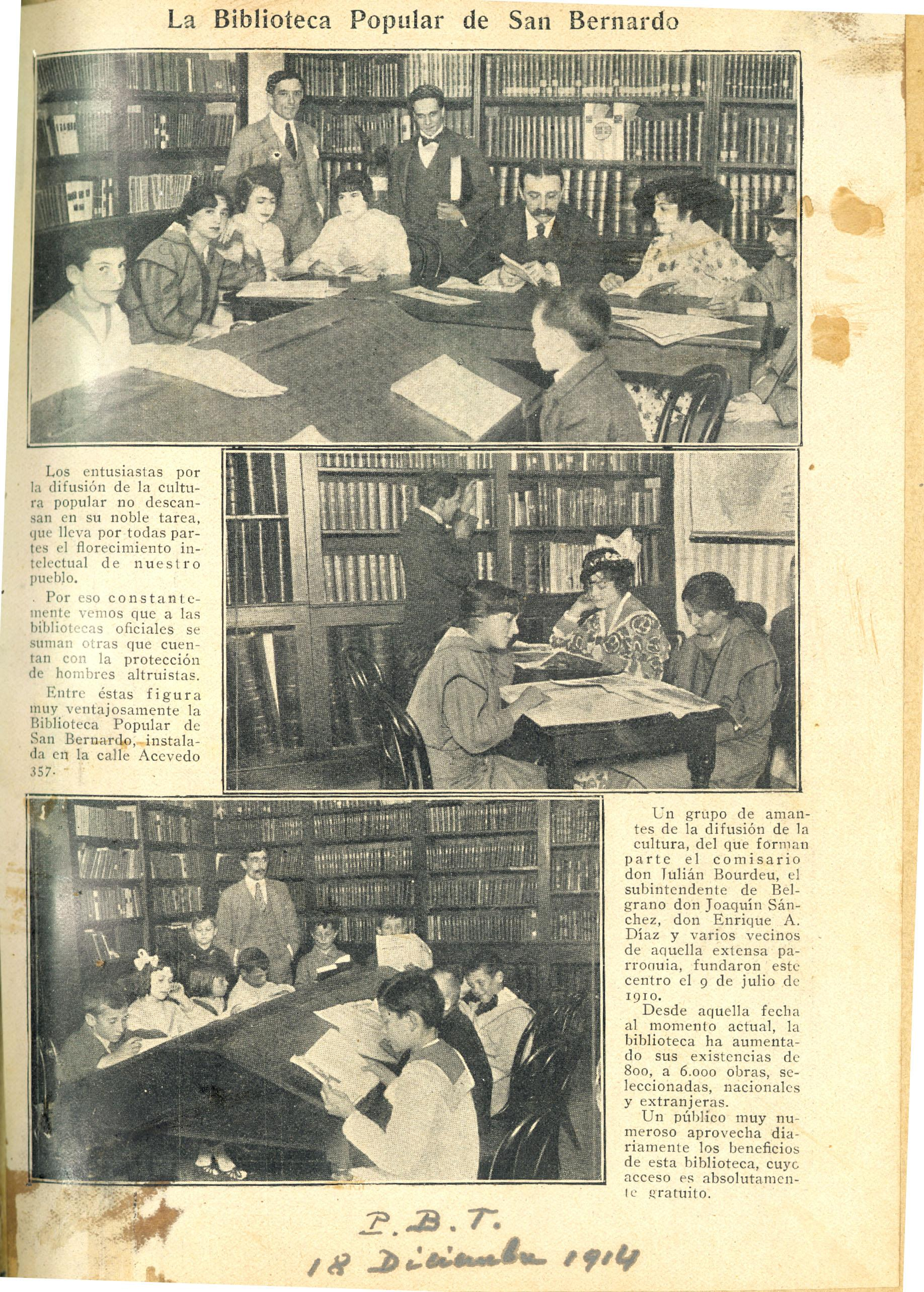 Note of the disappeared argentinian magazine P.B.T. dated decembrer 18, 1914, about the Public Library of San Bernardo (first name of the Villa Crespo quarter, Buenos Aires city) showing the main reading room and, at the center, one of the founders of the Library, Mr. Julián Bourdeu.